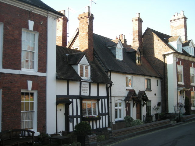 Richard Baxter's house Richard Baxter was a famous 16th century cleric & writer - so I'm told.